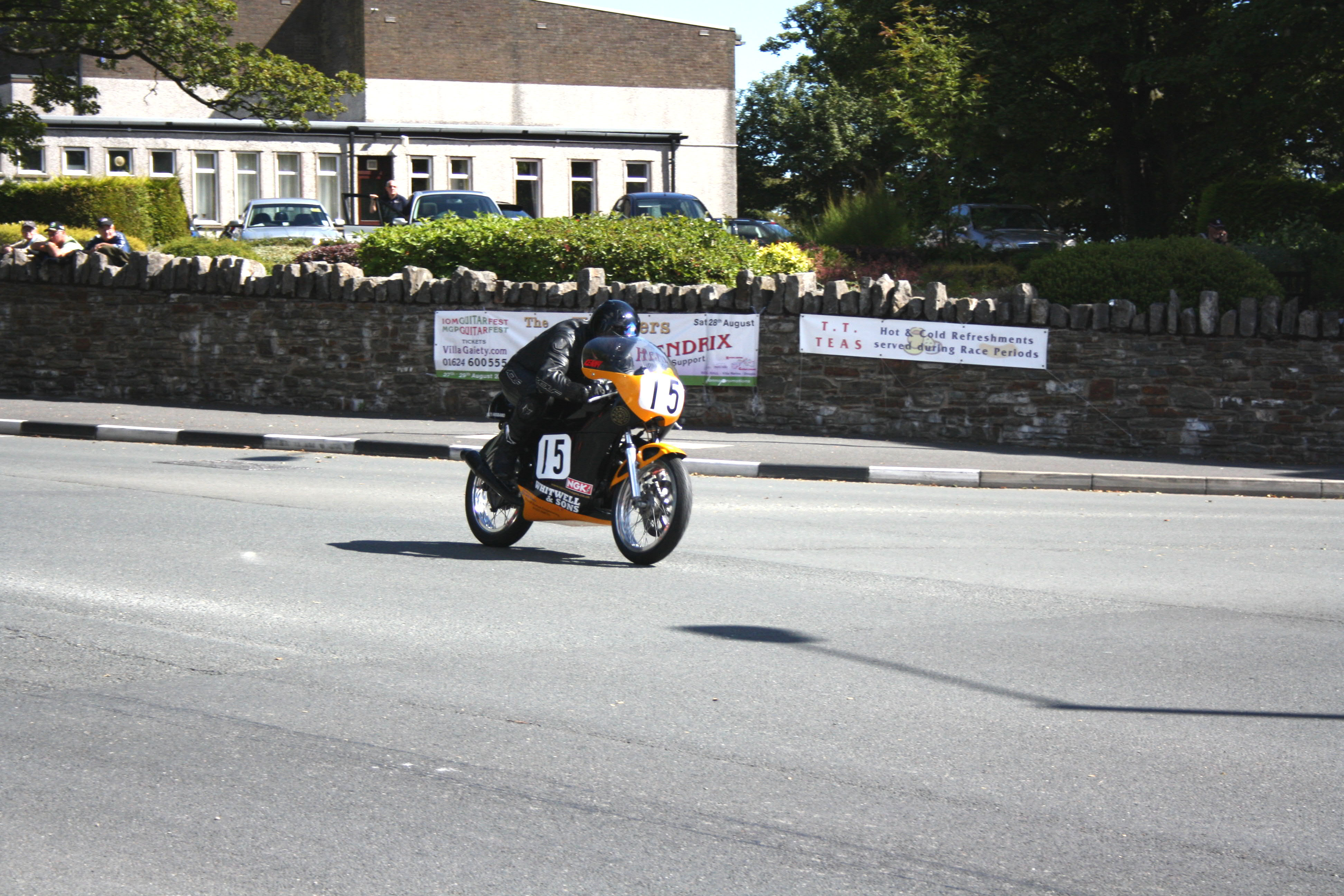 Ken Davis riding a 348cc Honda during the 2010 Manx Grand Prix Lightweight Classic. He retired from the race after two laps. Pictured at St Ninian's Crossroads, Douglas.